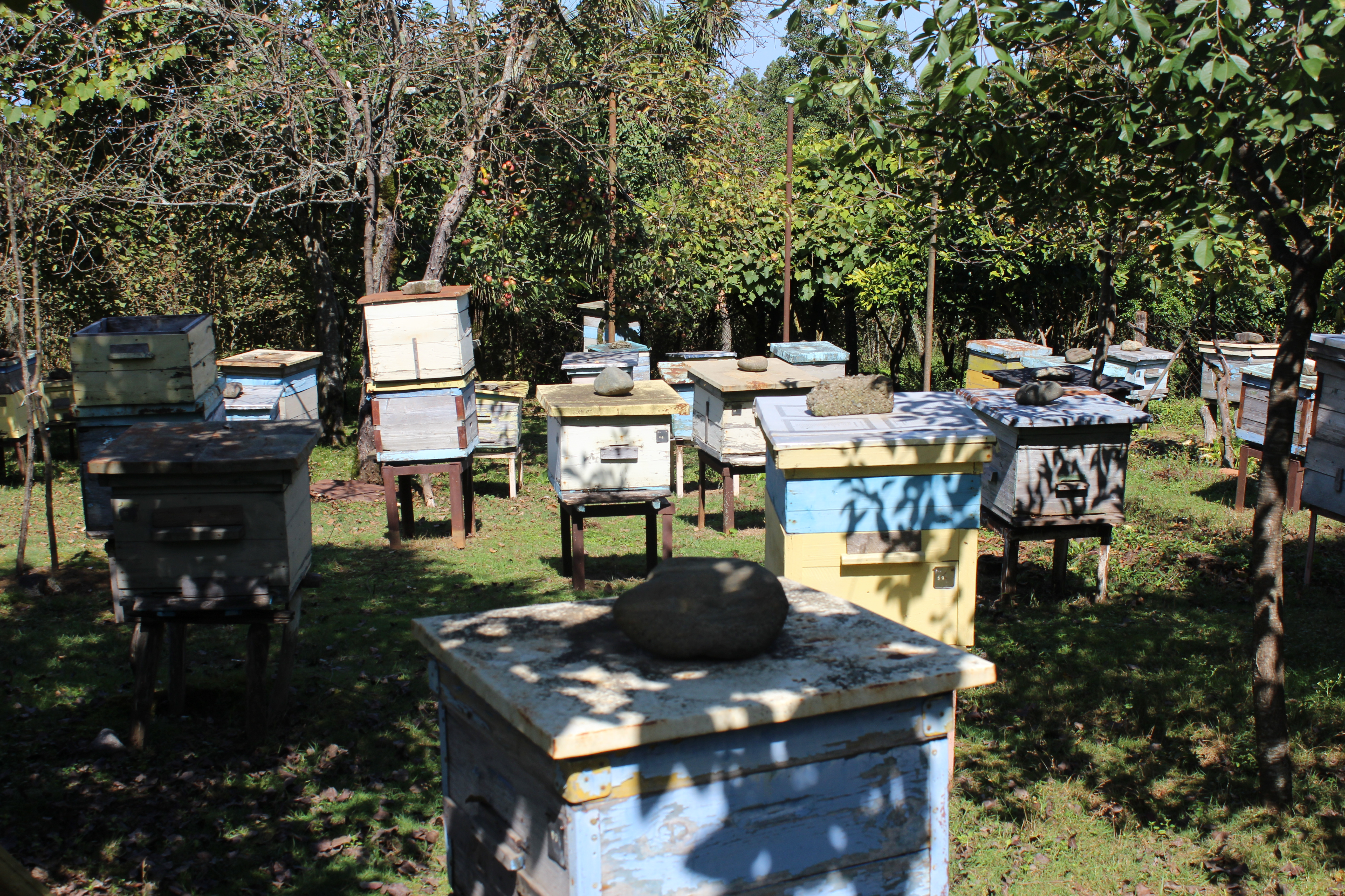 Bee houses, Guria Georgia